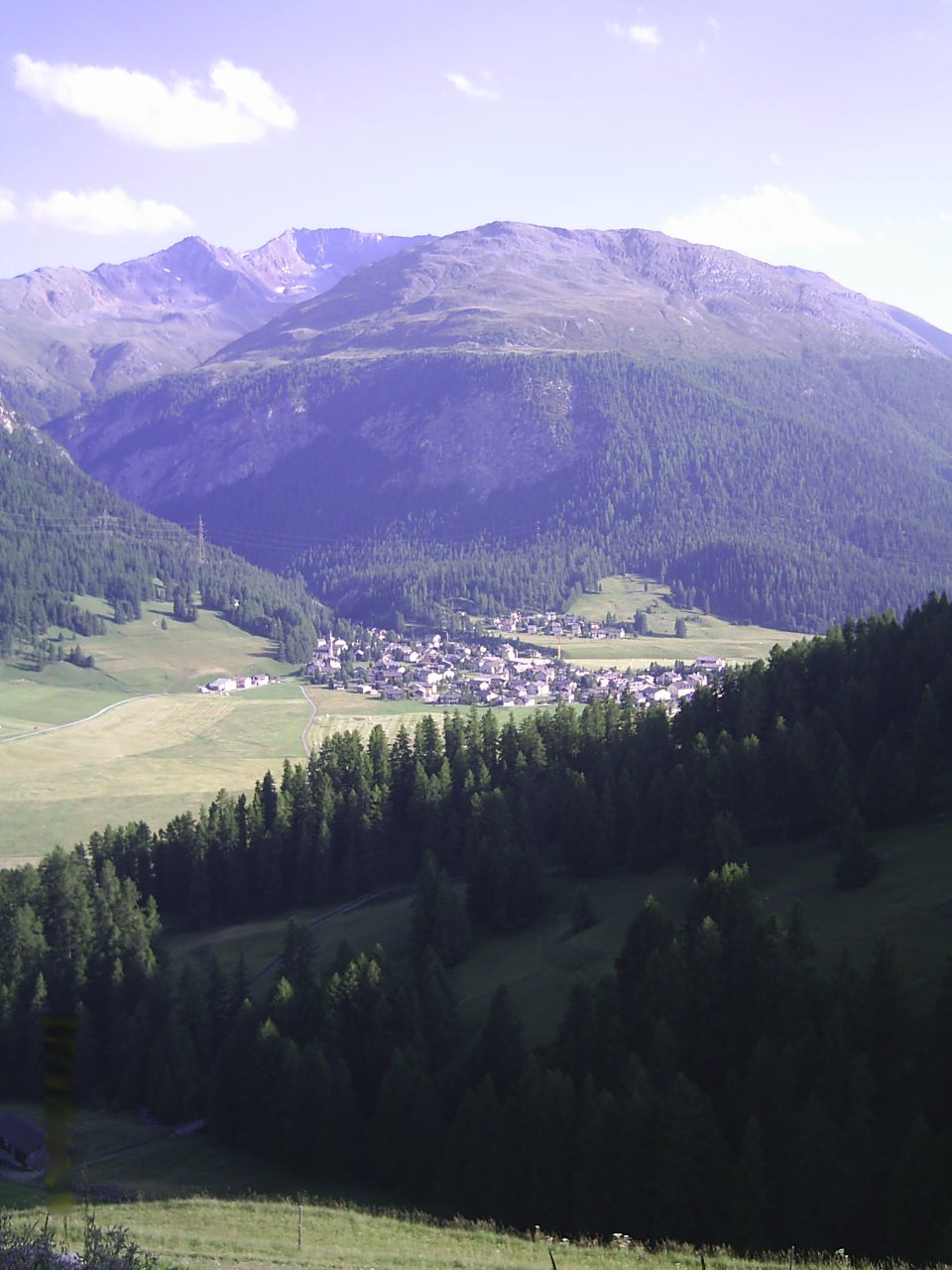 Swiss town Chamues-ch, seen from Val d'Es-cha (above Madulain)